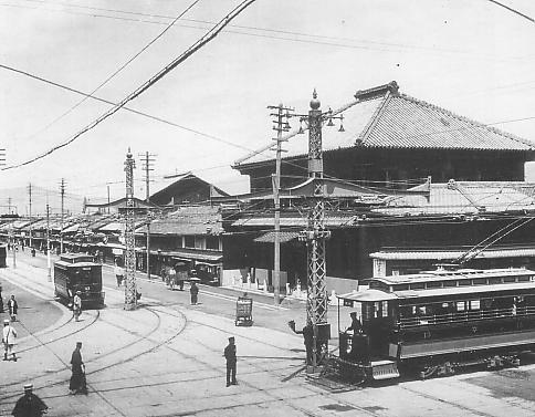 Shijo-Karasuma Intersection in the Taisho era